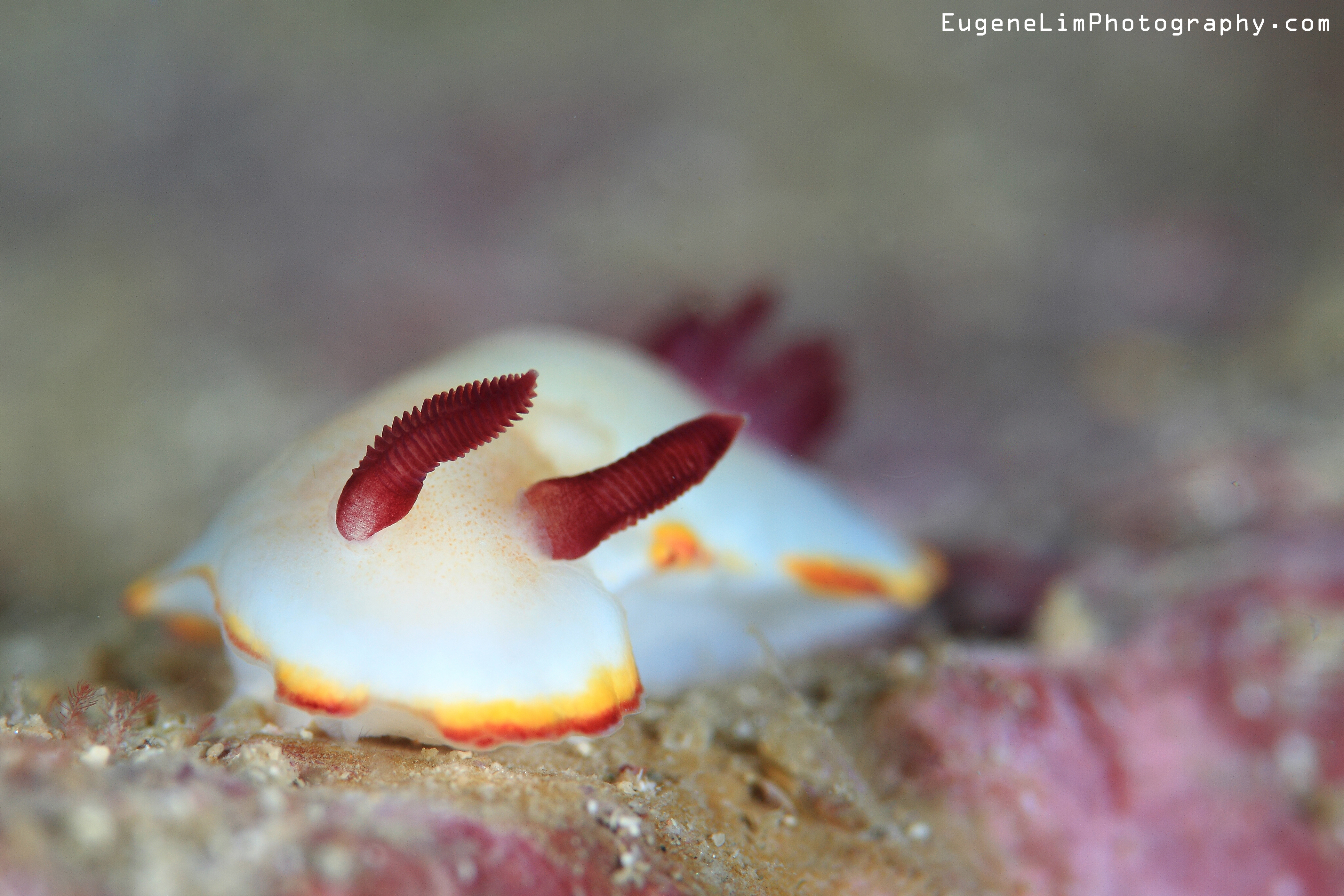 Goniobranchus sinensis, synonym: Chromodoris sinensis. Locality: Sai Kung, Hong Kong.